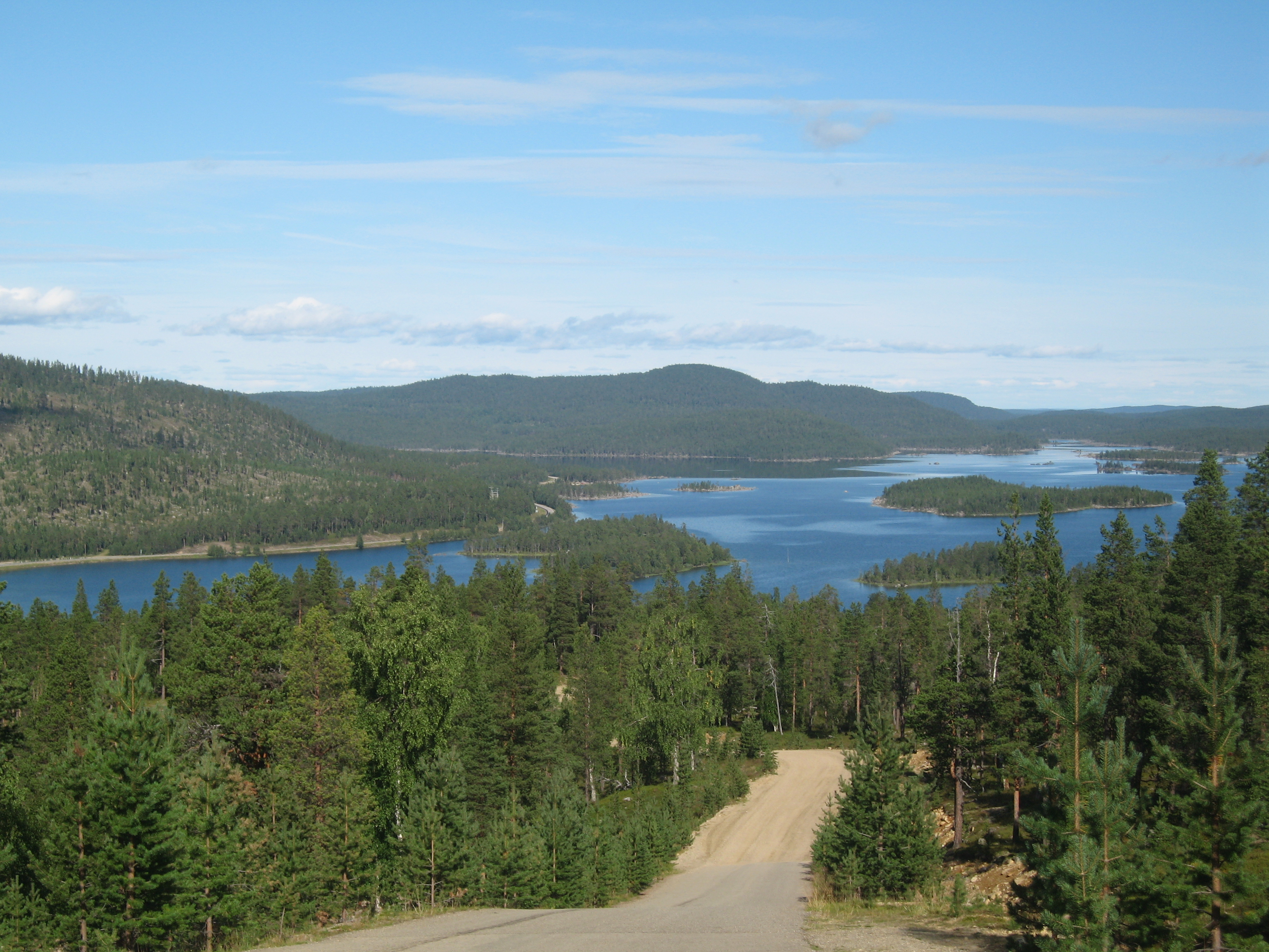 View of Lake Inari from a nearby hilltop